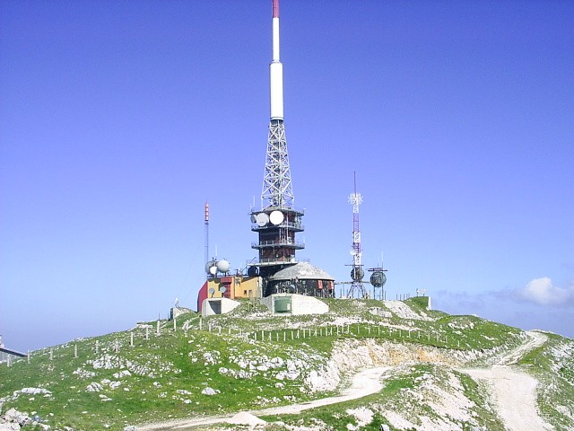 Paklenik hill in Vlašić mountains, Bosnia and Herzegovina